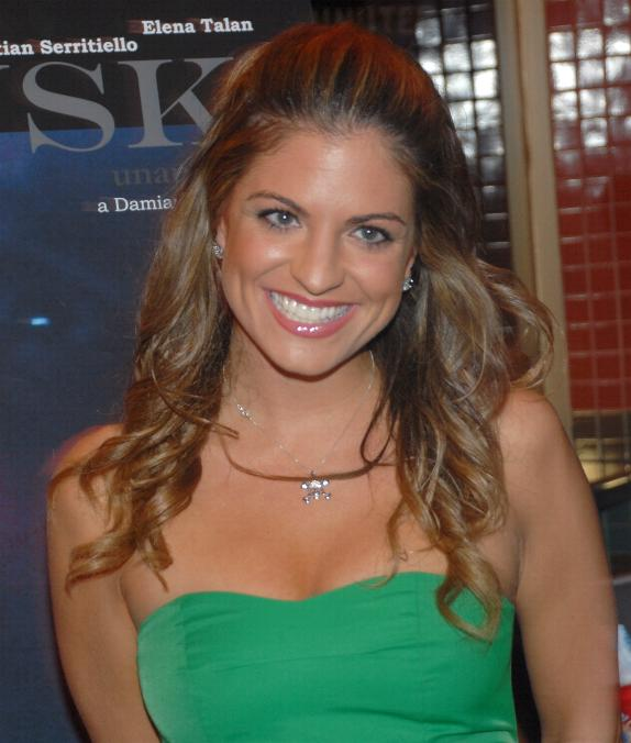 Bridgetta Tomarchio at the premiere of Polanski Unauthorized